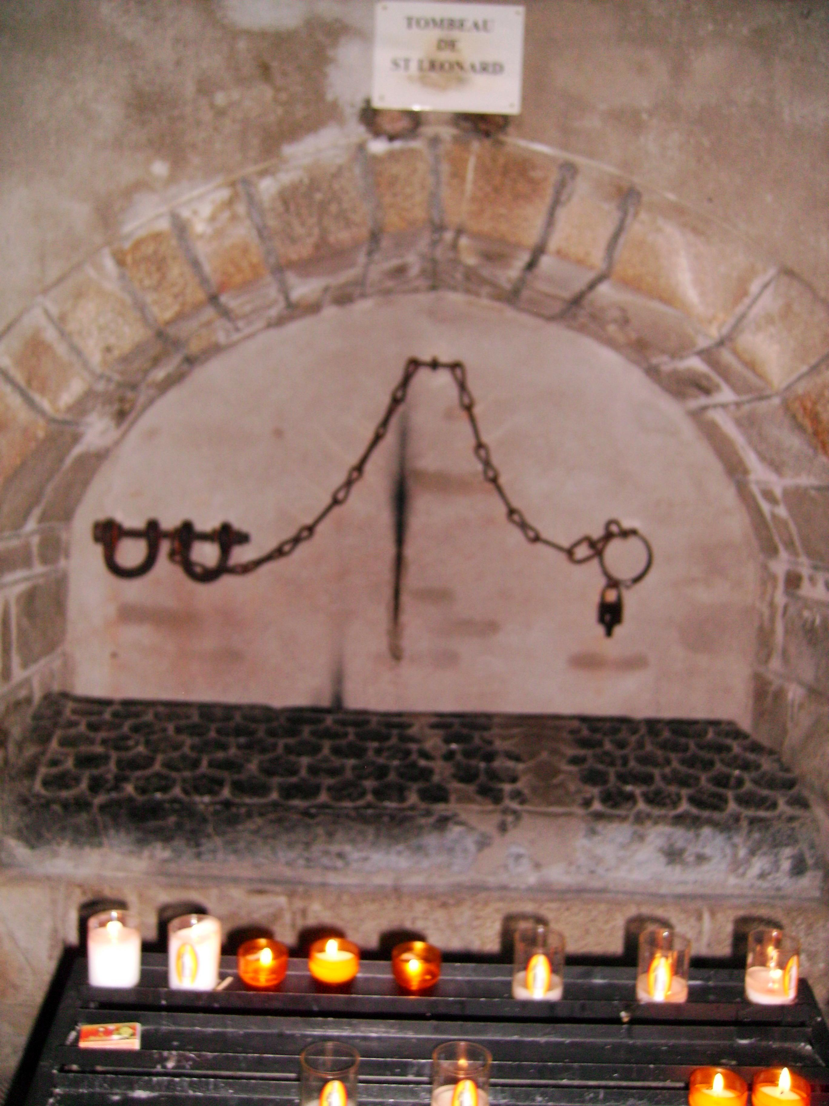 Tomb of St leonard at Saint-Léonard de Noblat, Haute-Vienne, limousin, France.